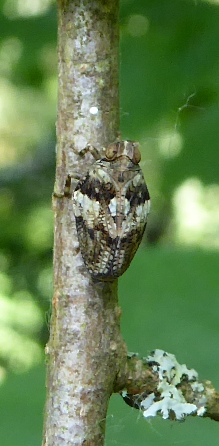 Issus muscaeformis